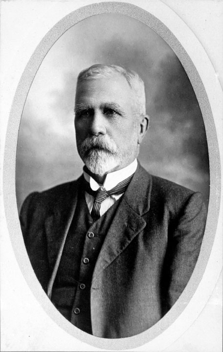 Portrait of Hon William Lennon, Deputy Governor. (Hon. William Lennon (Lieutenant-Governor) 03 February 1920 - 03 December 1920; 17 September 1925 - 13 June 1927; 08 May 1929 - 02 June 1929)